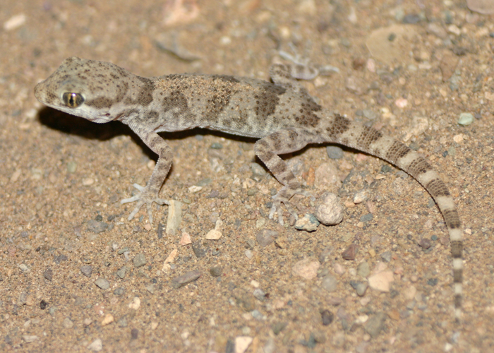 Bunopus crassicauda at Maranjab kavir (Maranjab, Isfahan, Iran)